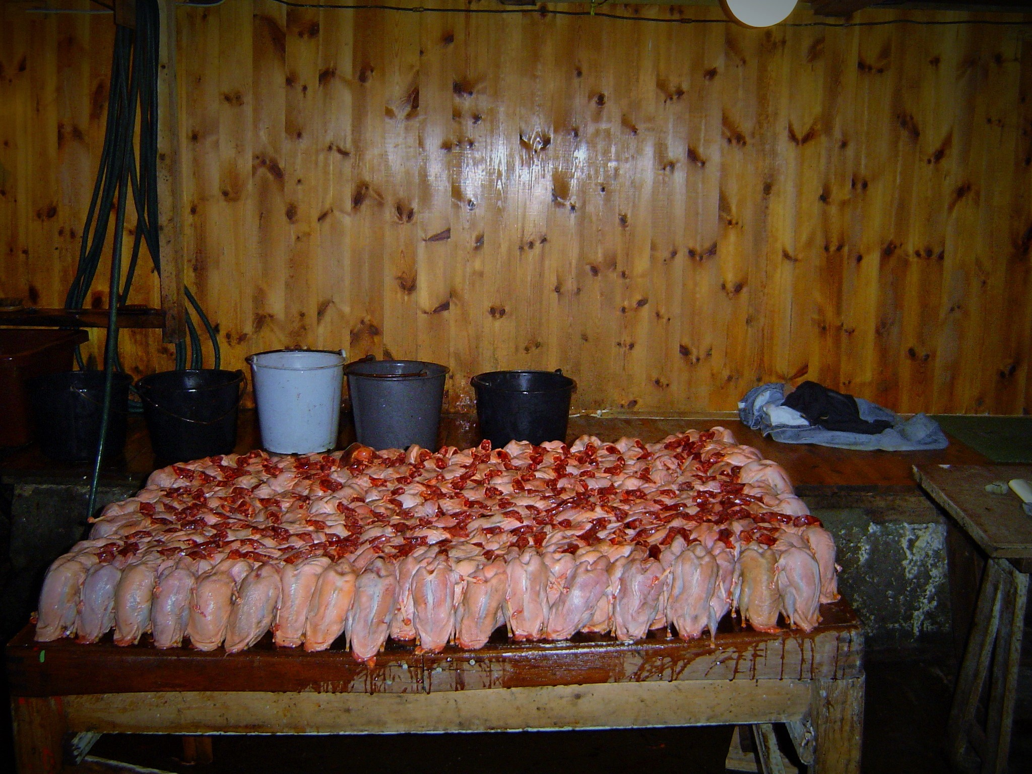 Caught puffins prepared for the farm's cuisine on the only farm on Stóra Dímun, Faroe Islands